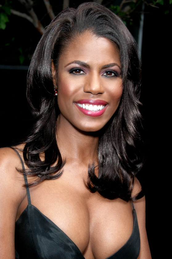 Omarosa Manigault-Stallworth attending Claudia Jordan's 35th Birthday Party at Boulevard 3- Hollywood, CA 04-13-08